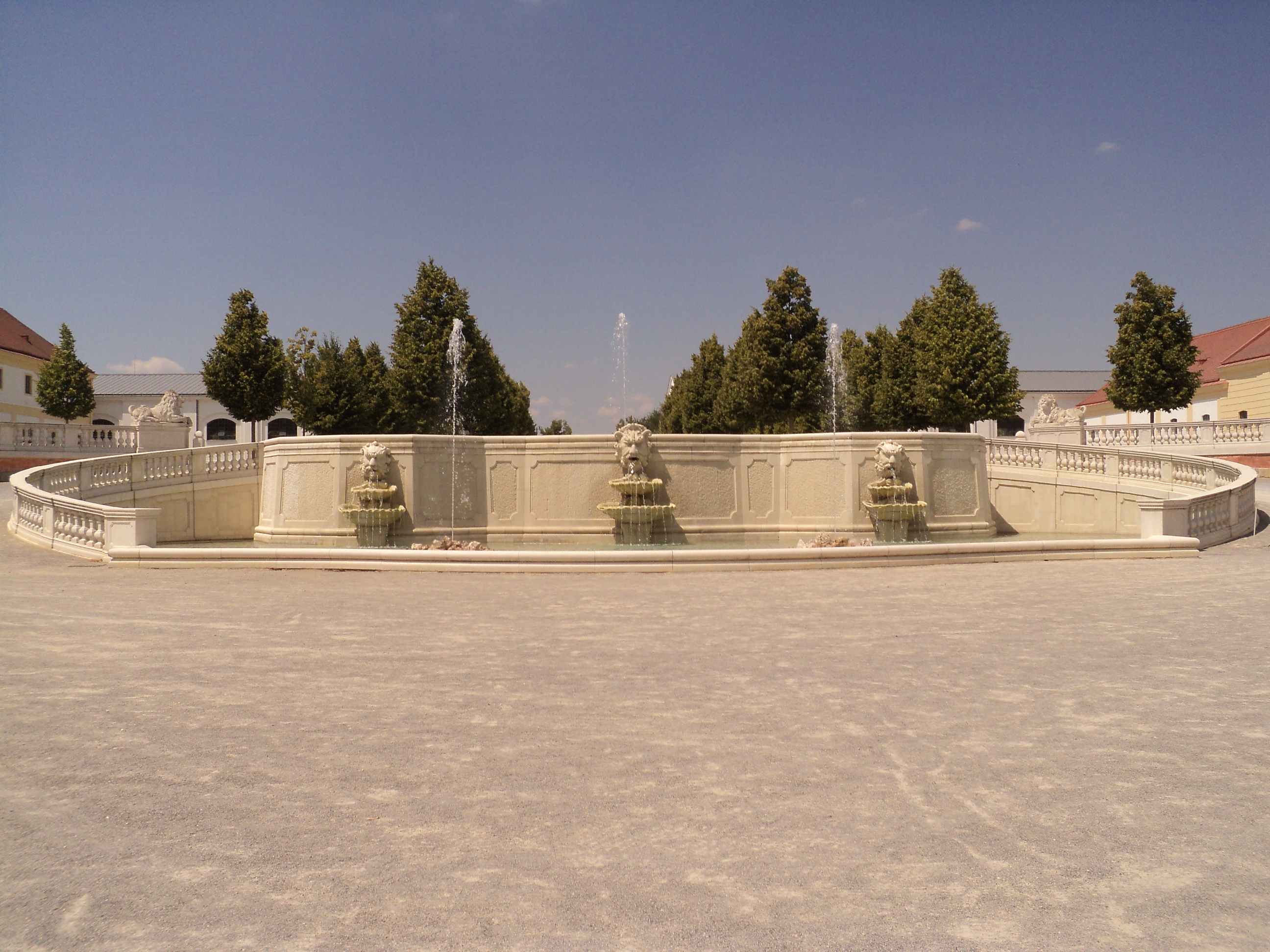 Fontain in front of the Schloss Hof castle.